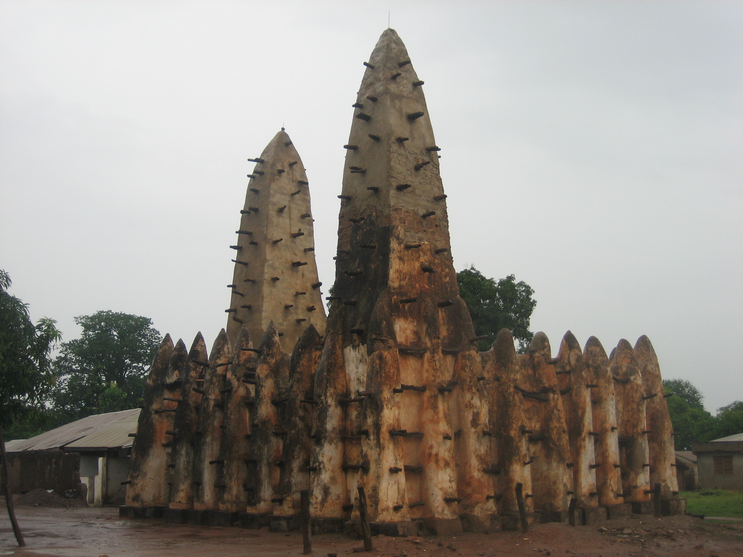 Mosque in Northern Ghana, on a muddy road going from Bole to Wenchi